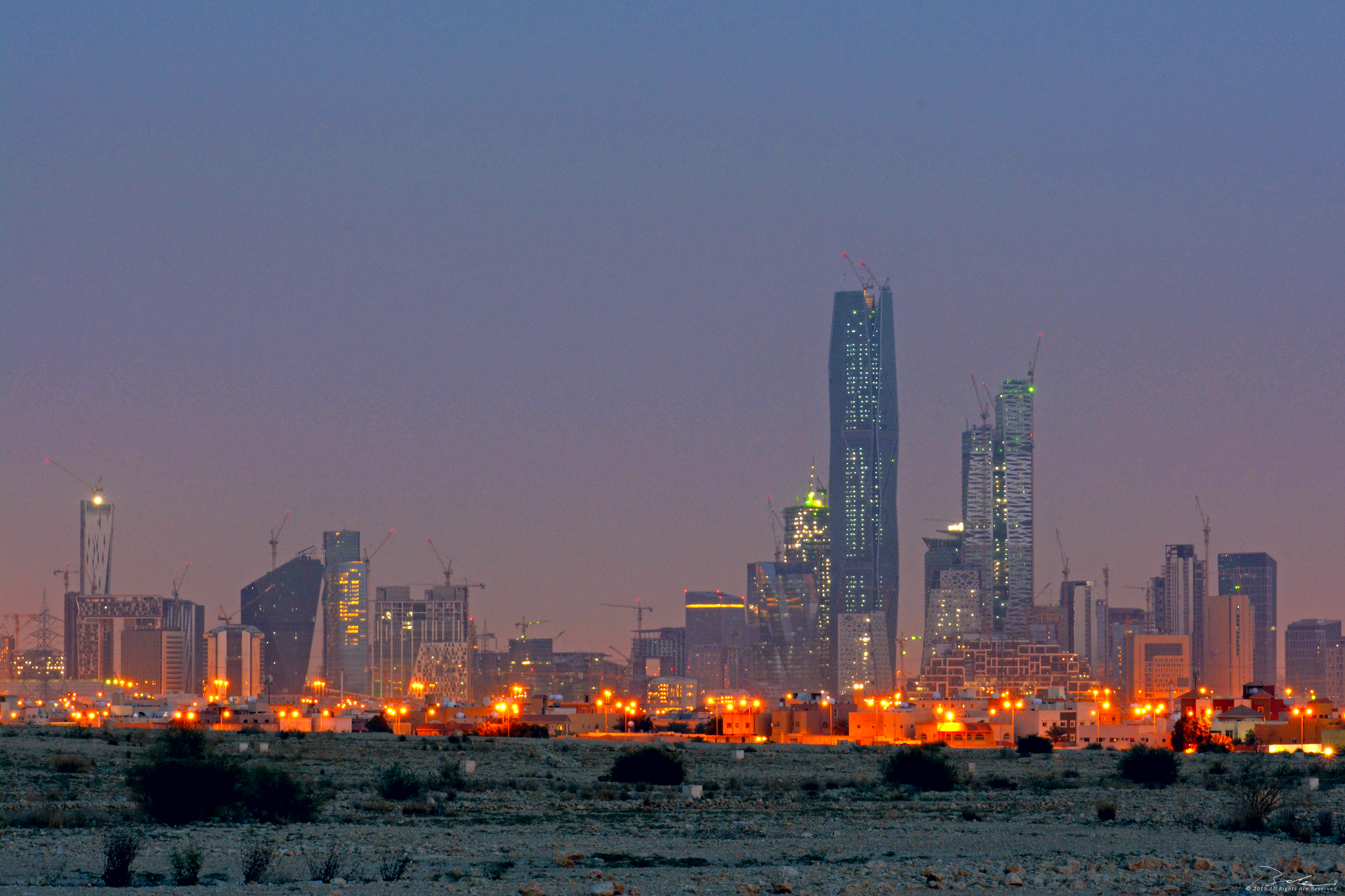 KAFD seen from North east side of Riyadh City. Phot dated: March 13th 2015